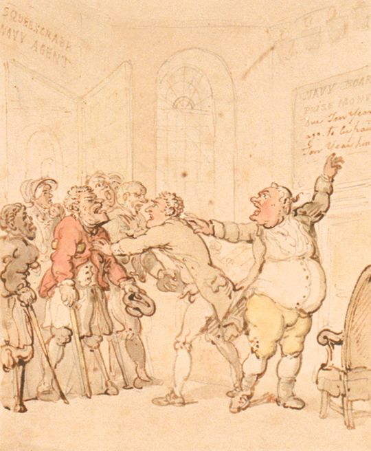 Navy agent refusing to pay prize money (caricature); pen & ink, coloured